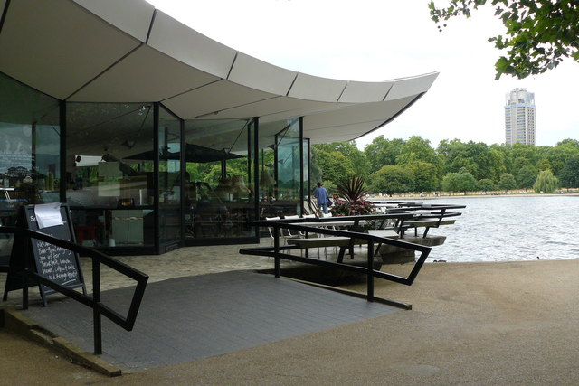 The Dell Restaurant, Hyde Park Located by The Serpentine; a nice location on a warm day. On this occasion, it was cool and windy, meaning that almost everyone was sheltering inside.